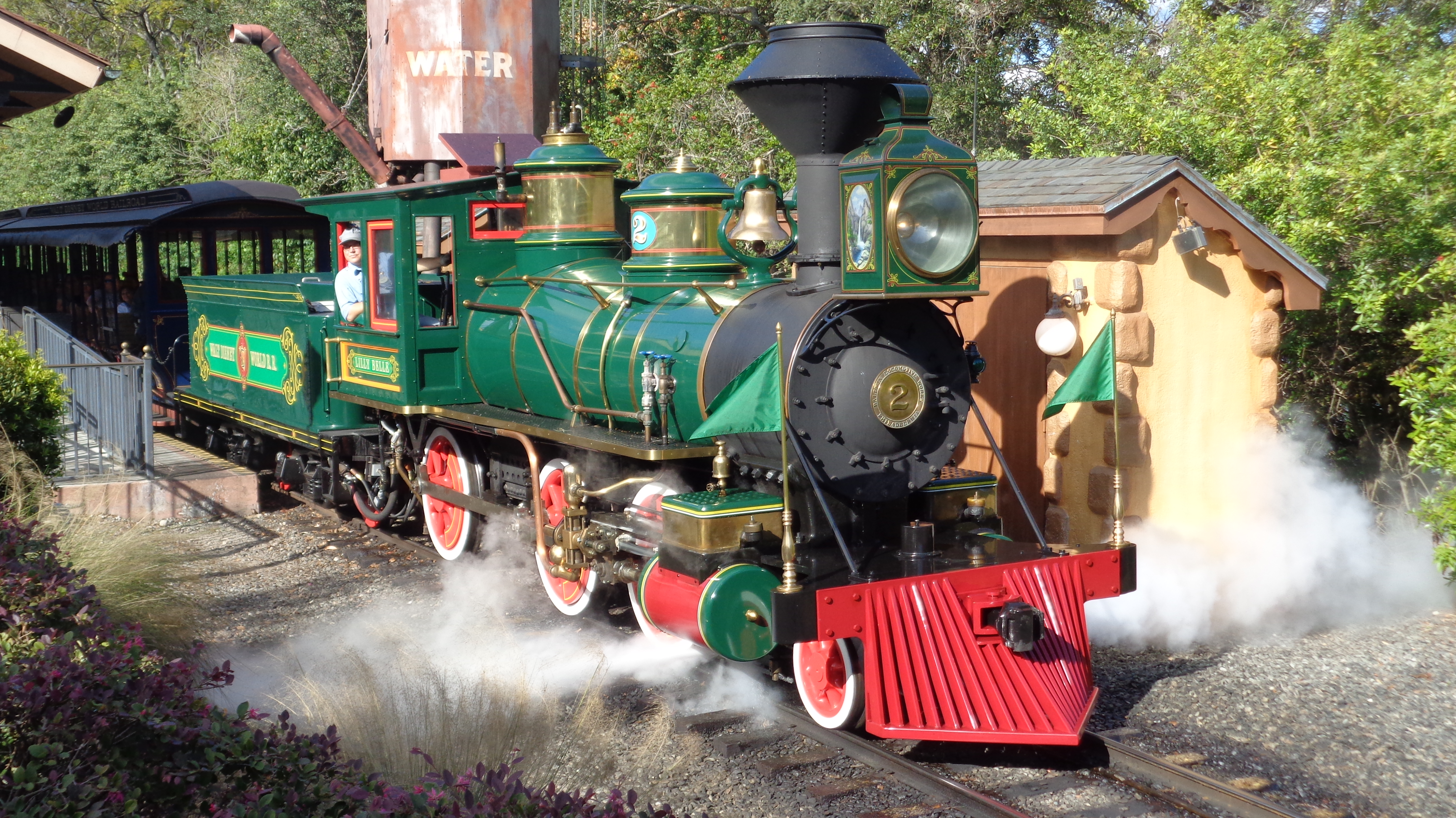 The Lilly Belle locomotive of the WDWRR shortly after its return to service in 2016.